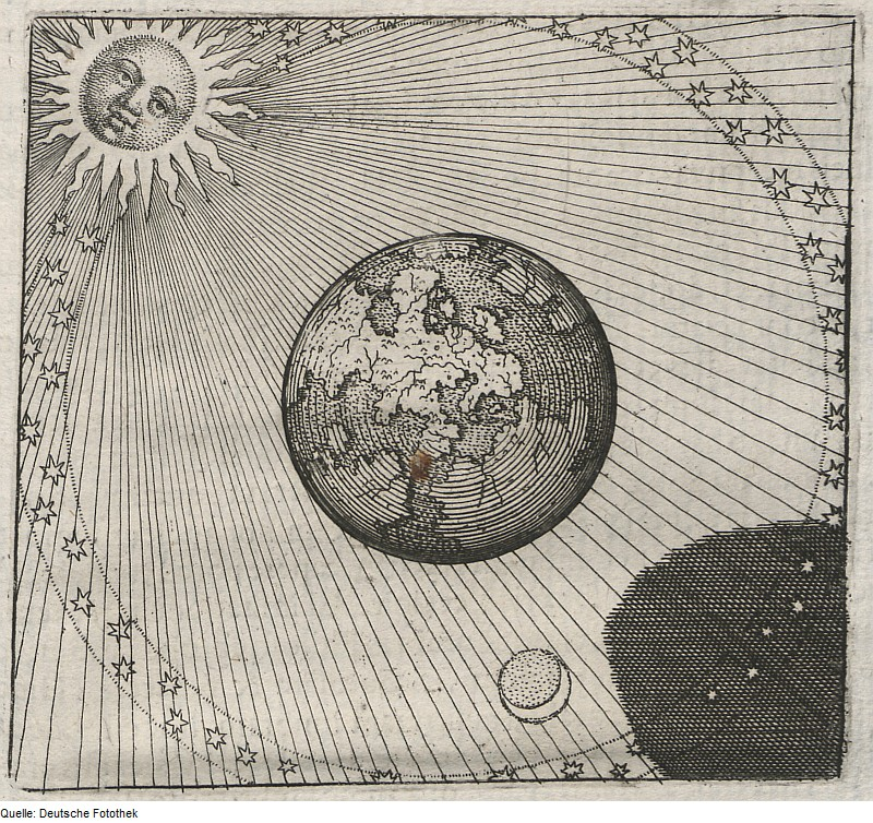 Original image description from the Deutsche Fotothek Theosophie & Alchemie